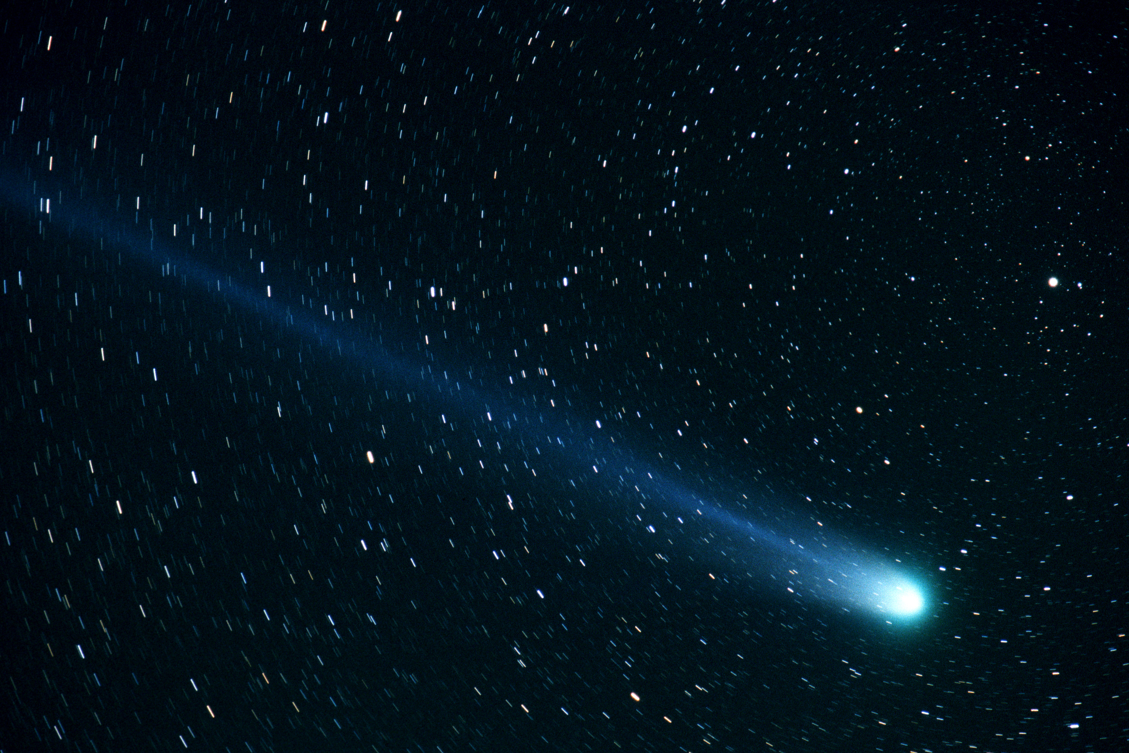 Image of Comet Hyakutake by NASA photographer Bill Ingalls.